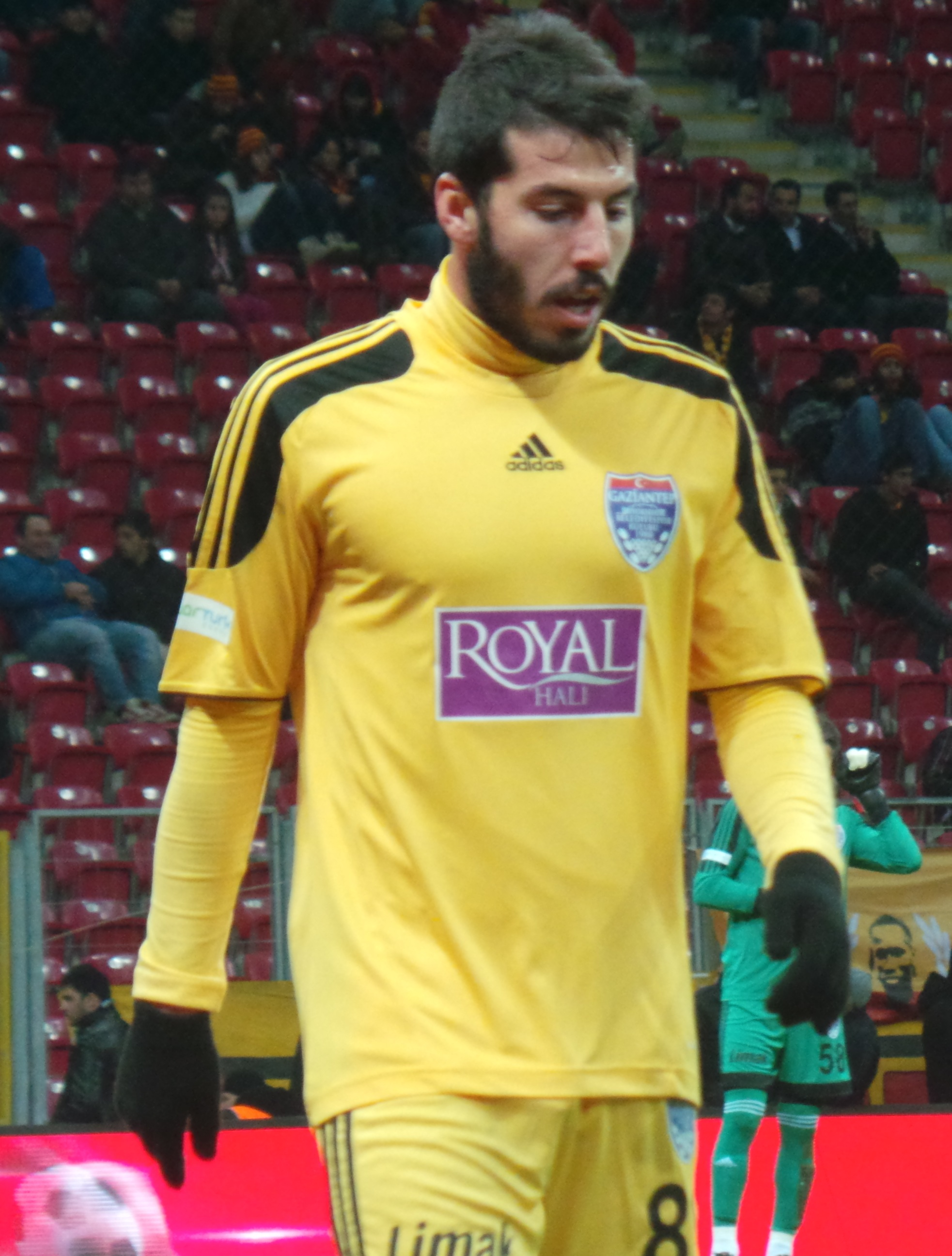 Erkam Reşmen playing vs GS